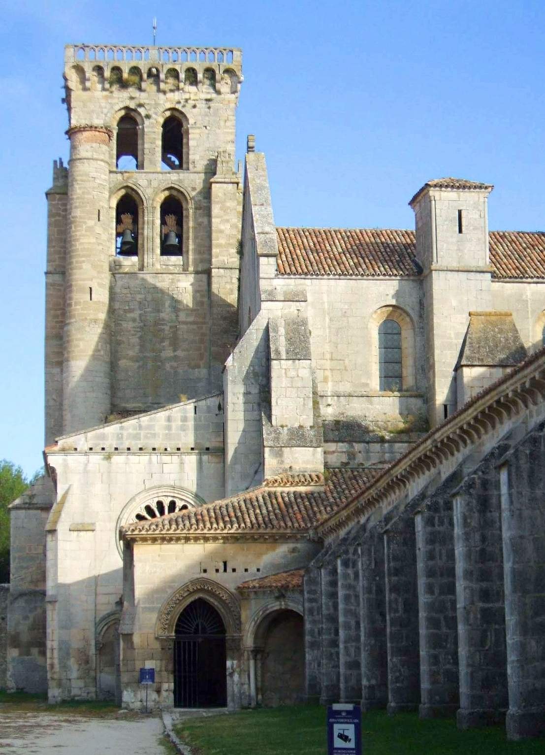 Monastery of Santa María la Real de Las Huelgas, Burgos.